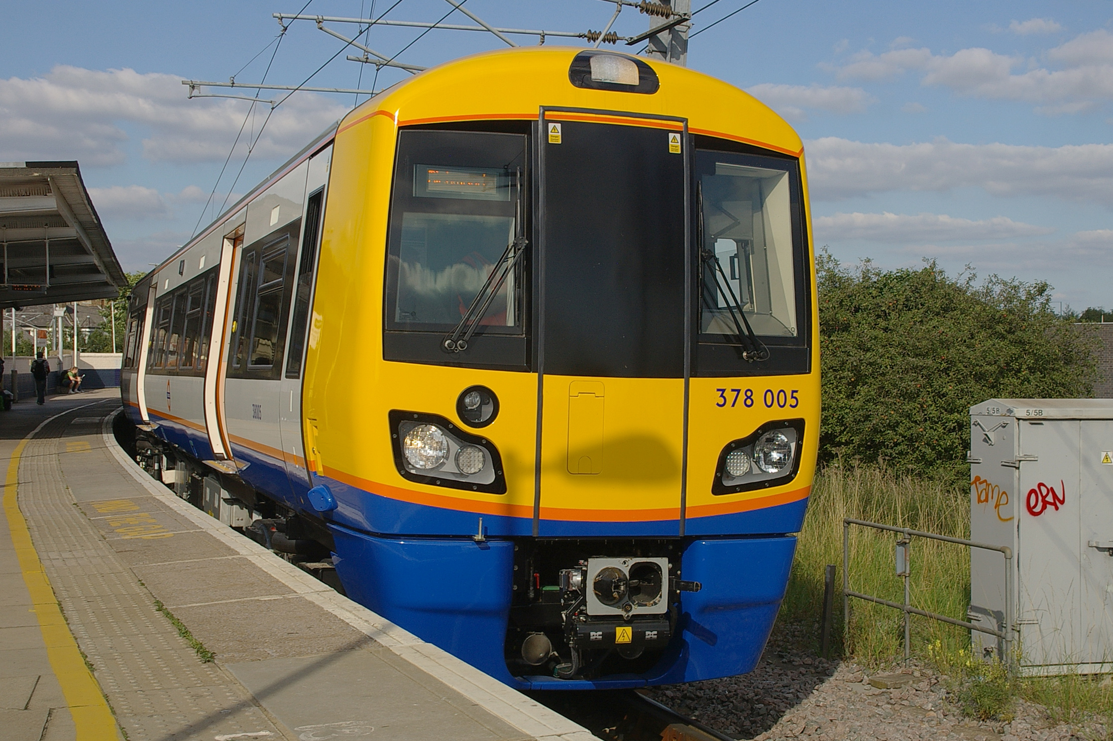 London Overground 378005 at Willesden Junction railway station with a North London Line service to Richmond.